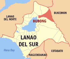 Map of the Lanao del Sur showing the location of Bubong